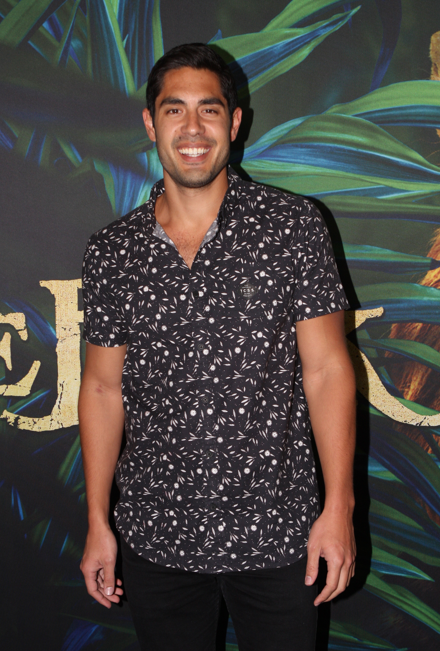 Tai Hara at The Jungle Book premier at Event Cinema in Sydney.